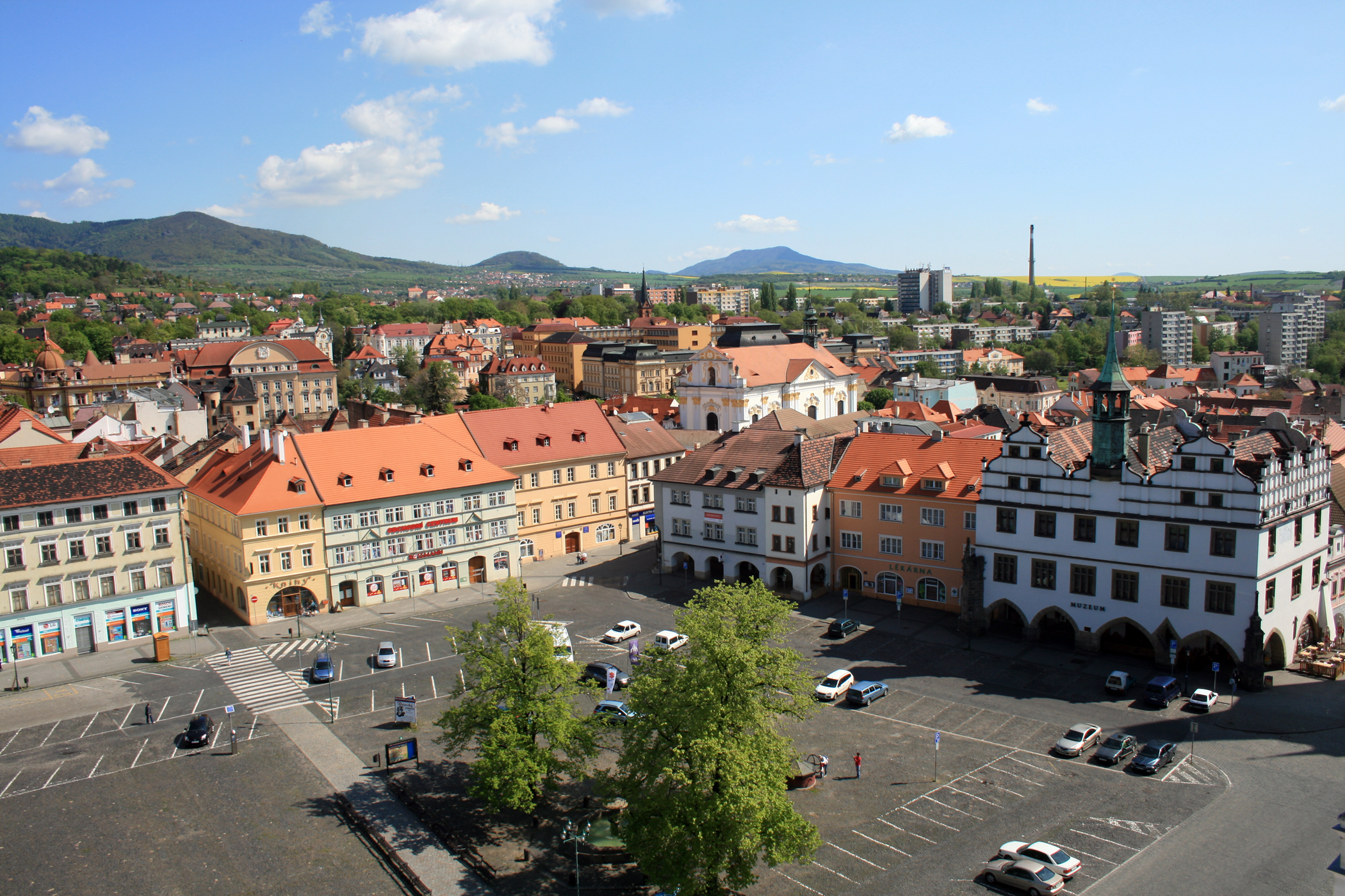 A view of main square of Litoměřice from House “Goblet”, Czech Republic in NE direction. E half of the square with old town hall (nowadays a museum) in the right. In the left among houses Baroque St James church. Beyond houses on the left edge eastern slope of the Mostná hora (273 m). The horizon is framed with hills of the České středohoří: left Křížová hora (590 m), middle Liščín (437 m), on slopes between them villages of Žitenice and Pohořany, right Sedlo (726 m), some 11,5 km away.